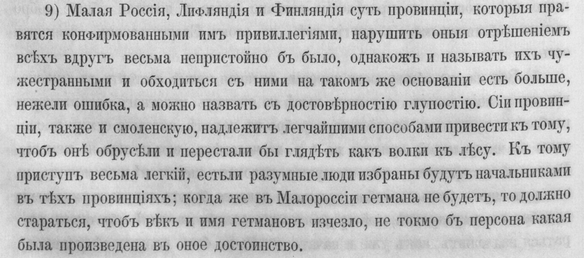 Catherine II about Rus Minor, Liefland, Finland (1864)